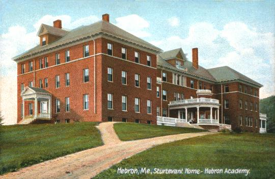 Sturtevant Home, Hebron Academy, Hebron, Maine. It was built in 1899 and named for Phoebe Sturtevant, wife of benefactor Benjamin F. Sturtevant.